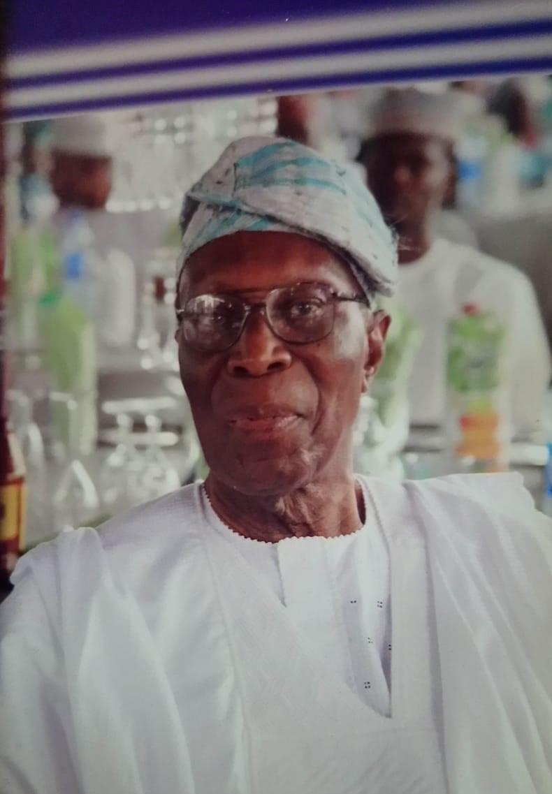 Karim Olowu at his 90th birthday in 2014